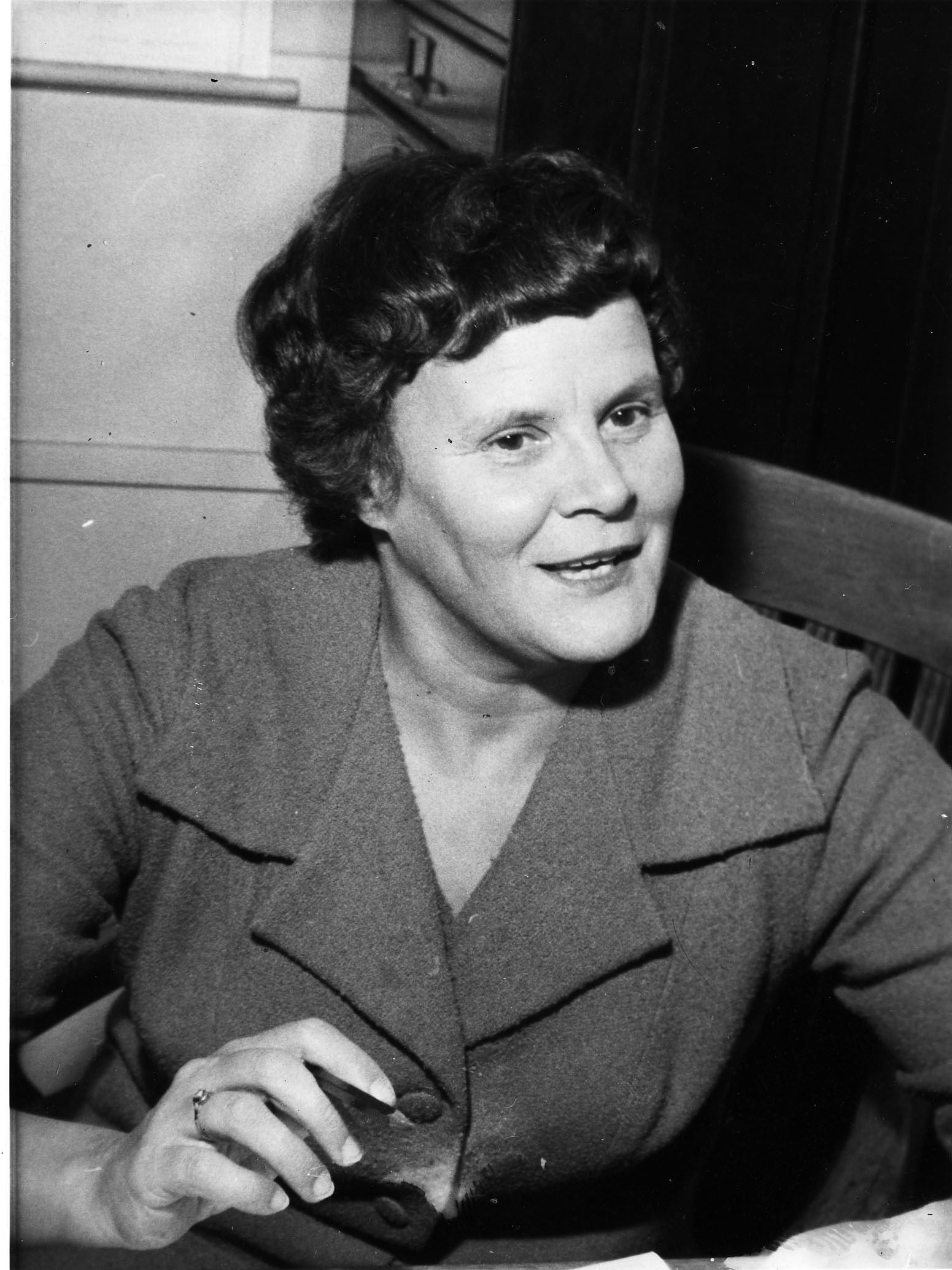 Photograph of the Finnish journalist Salama Hirvonen (1910–2007).